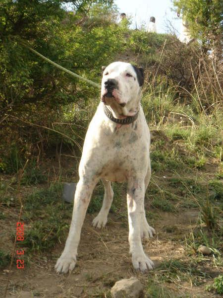 The Bully Kutta is powerful mastiff with a muscular and strong boned body. Long legged, wide chested and with well developed jaws, the massive Bully Kutta will exude a ferocious and intimidating appearance. Ancestors of this breed were used as fighting gladiator war dogs. The Bully Kutta was dubbed as the Beast from the East as the breed has gained the reputation for being extremely aggressive. These dogs can be very difficult to handle... they are even known to attack their owners. Bully Kuttas are mainly used as guard and protection dogs. Although dog fighting was banned in Pakistan years ago, illegal dog fighting tournaments are still being held. Because of the immense size, brute strength and the ferocious temperament, Bully Kuttas are one of the most sought after breeds for dog fighting.